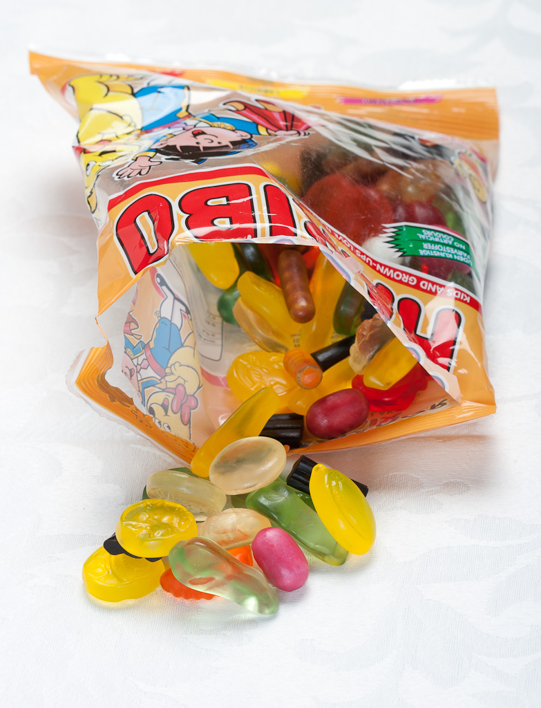 A bag of Matador Mix, a mixed bag of candy from Haribo.